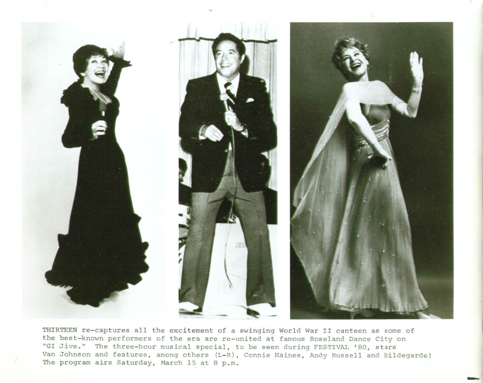 The G.I. Jive Musical Special (1980) was hosted by Van Johnson and featured Connie Haines, Andy Russell, and Hildegarde. It was produced by PBS.